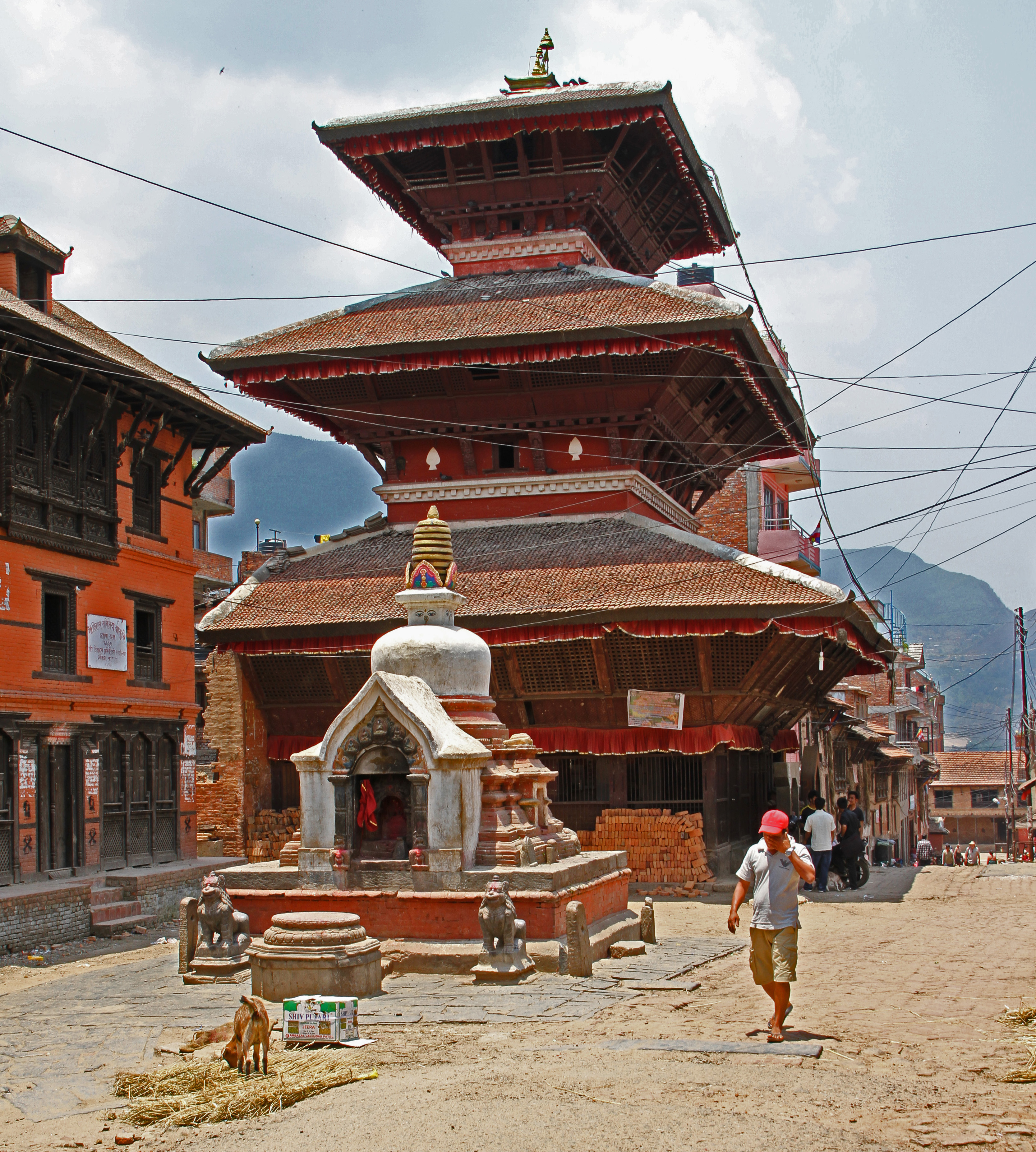 Hindu temple in Khokana in Nepal